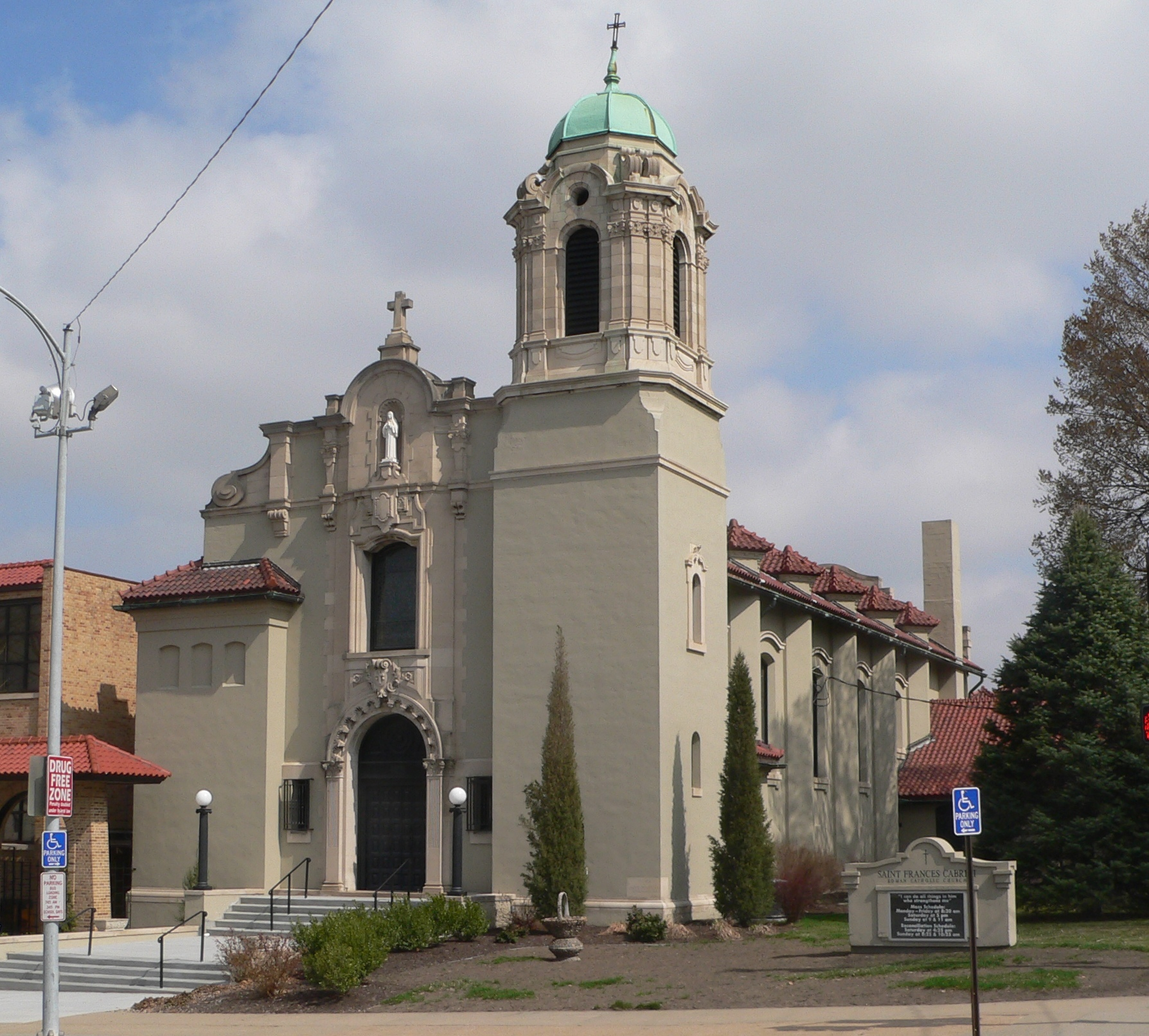 St. Frances Cabrini Church, located at 1335 S. 10th Street in Omaha, Nebraska; seen from the southwest. The church is the former St. Philomena's Cathedral.